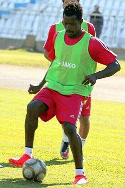 official pic of Sekyi